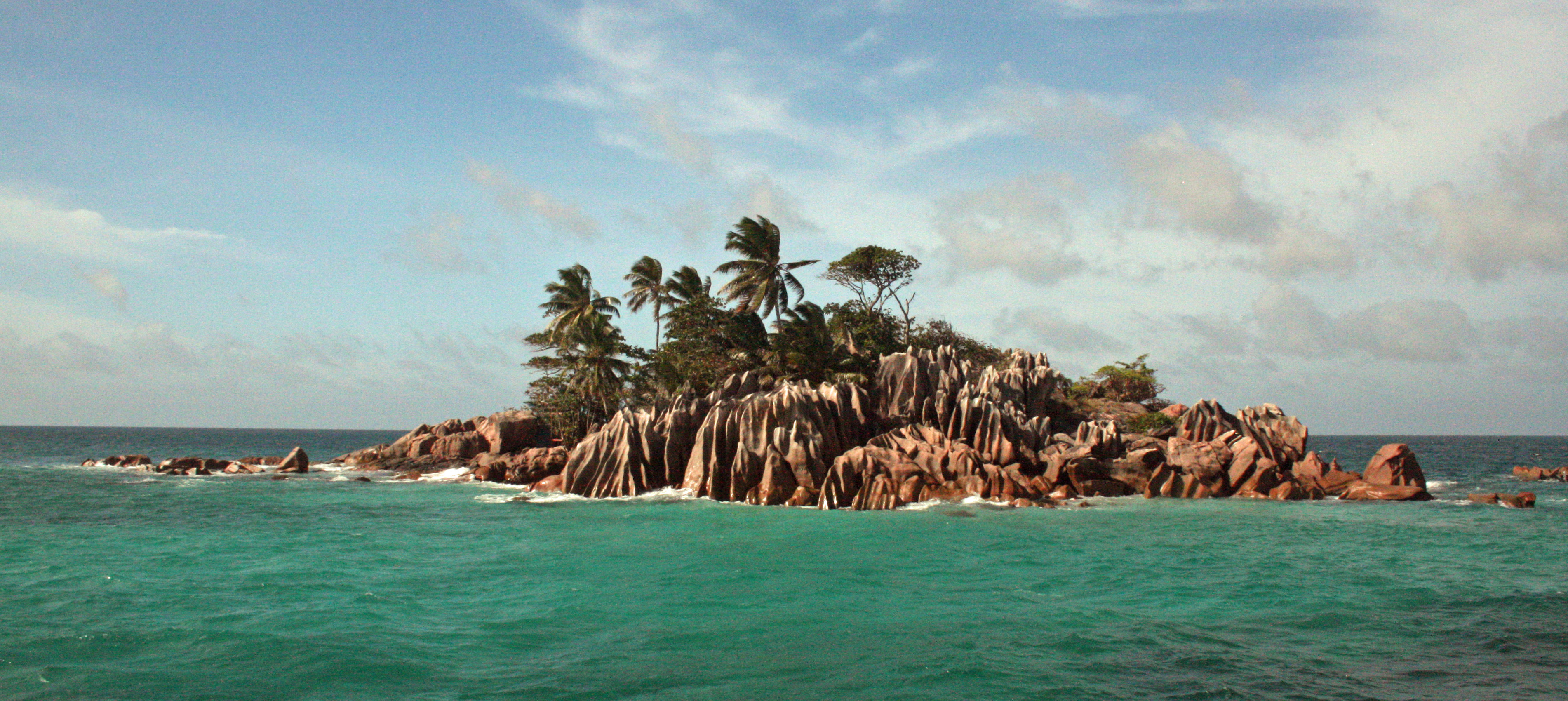 Île St. Pierre in the Seychelles